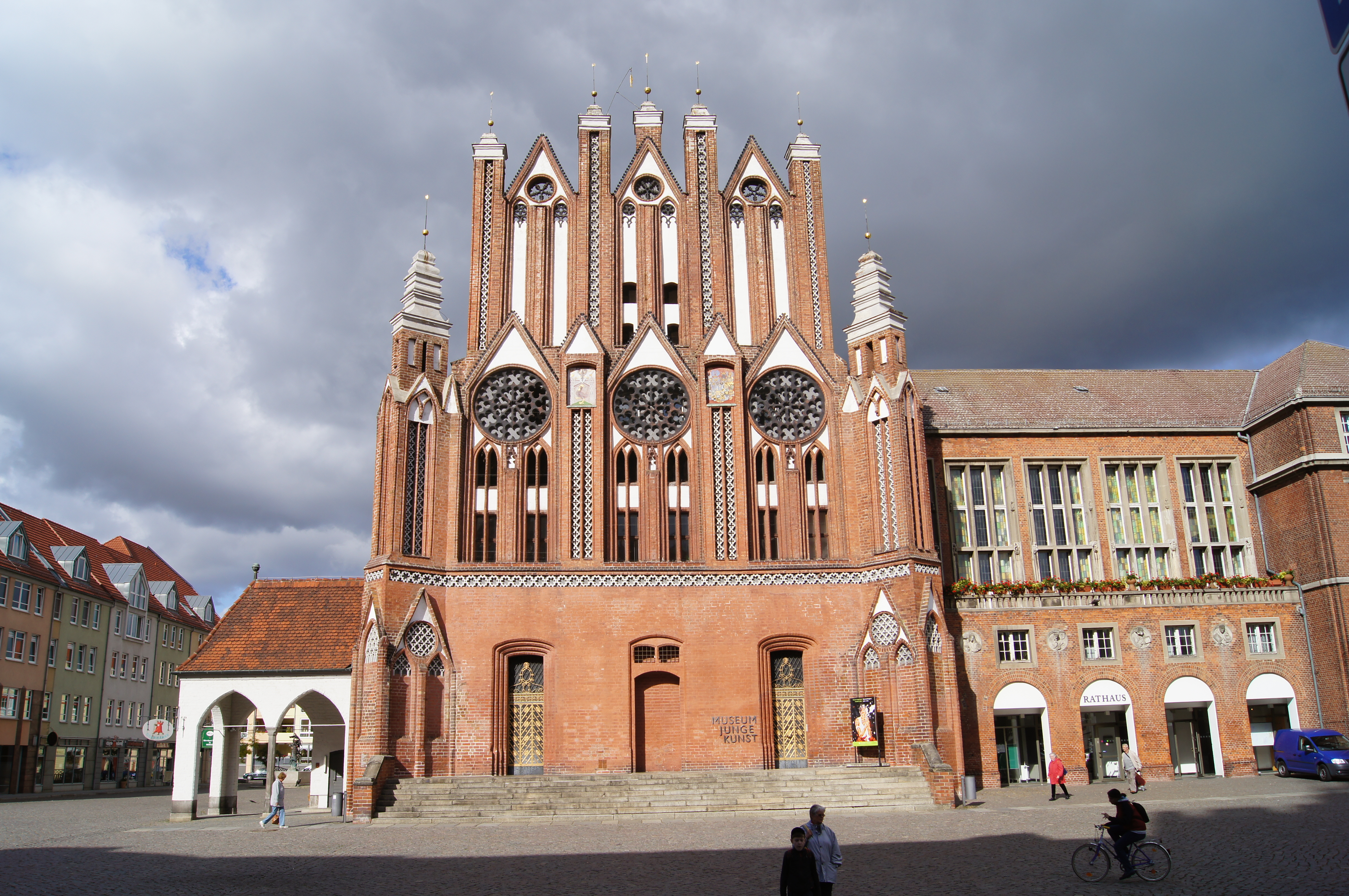 Town hall of the city of Frankfurt (Oder), Brandenburg, Germany